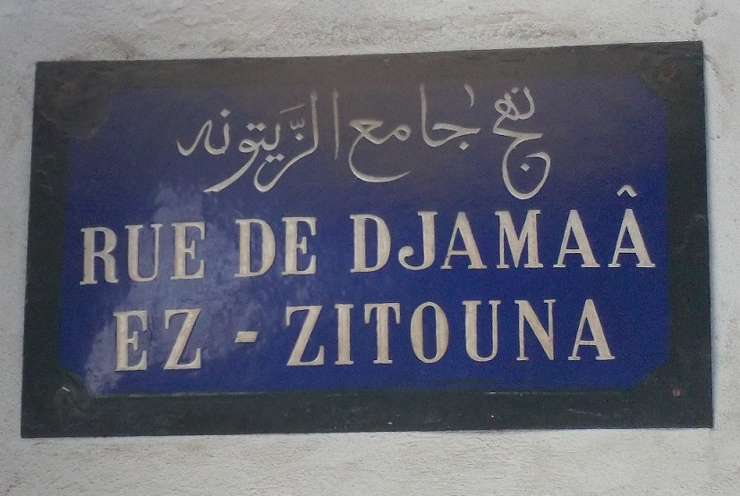 street sign in Tunis / Tunisia